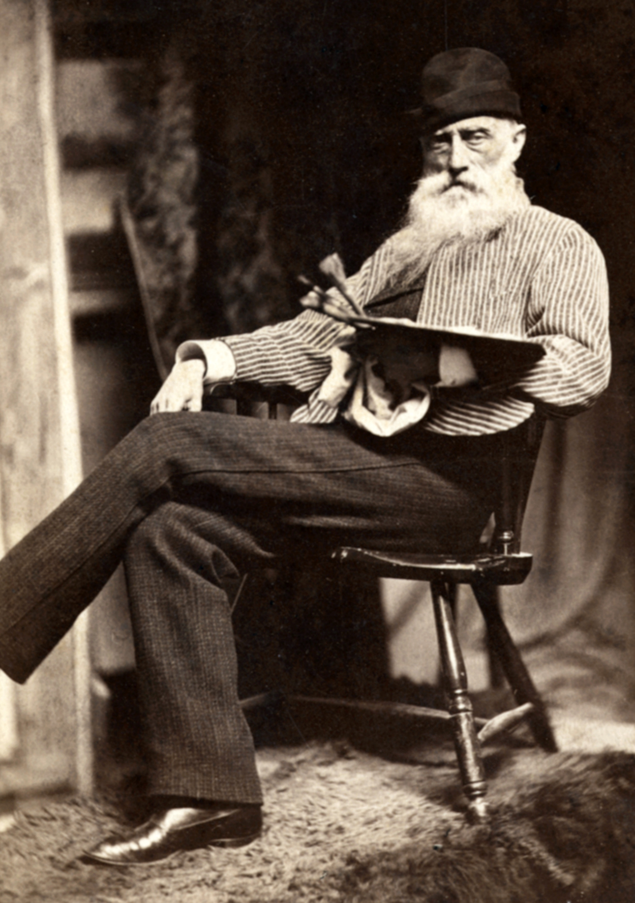 Two photographs of Hunt's studio in Boston, taken by the studio of Edwin N. Peabody, based in Salem Mass., 1879. One photograph of Hunt seated holding a palette, taken by J.W. Black & Co., Boston; and Hunt in side pose wearing bifocals taken by Howe, Brattleboro, Vermont.